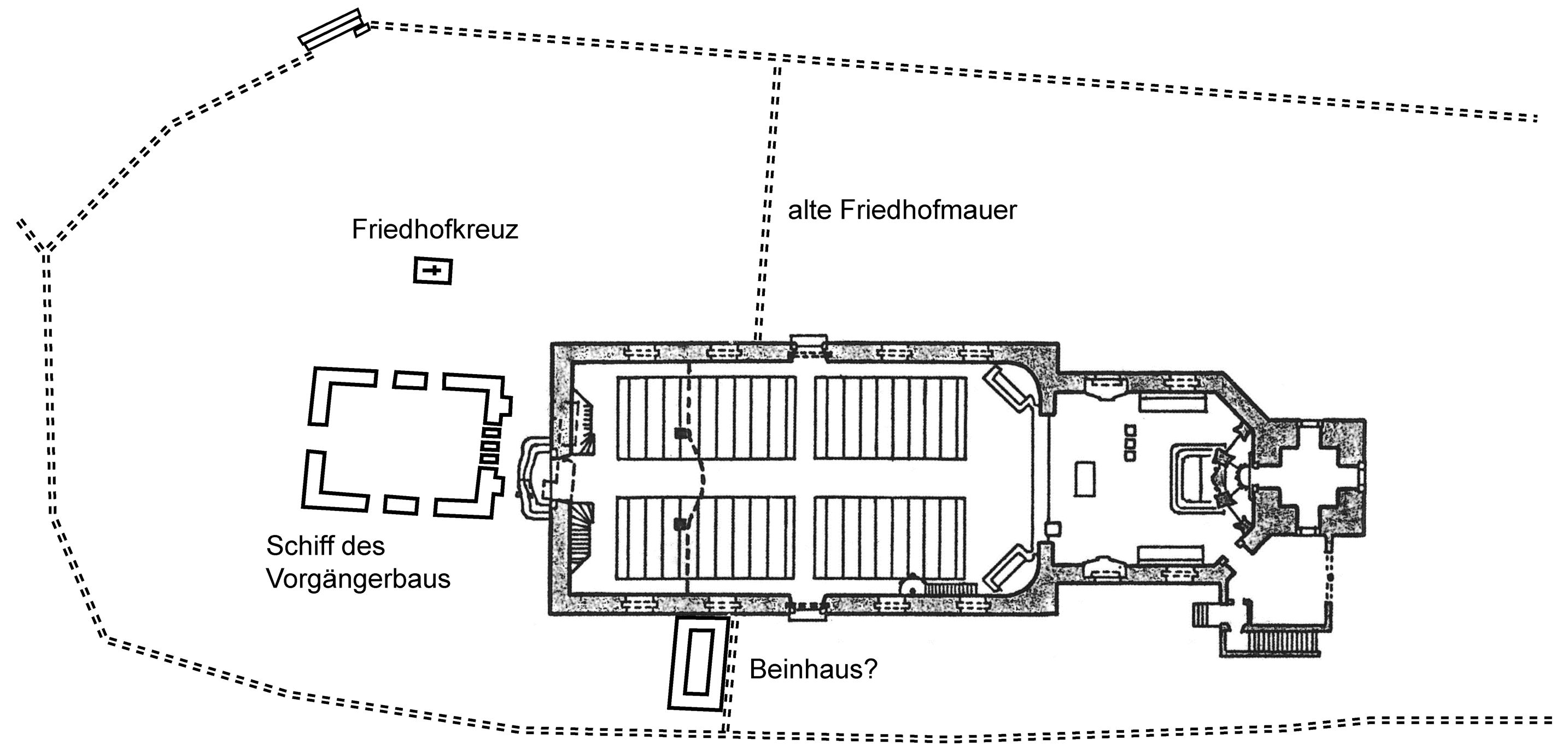 ground map of the parish church St. Romanus, Schweighausen, Schuttertal, Baden-Württemberg, Germany. Modified from Gerhard Finkbeiner: Heimatbuch Schweighausen. Ortsgeschichte. Interessengemeinschaft Badischer Ortssippenbücher, Lahr-Dinglingen 2003